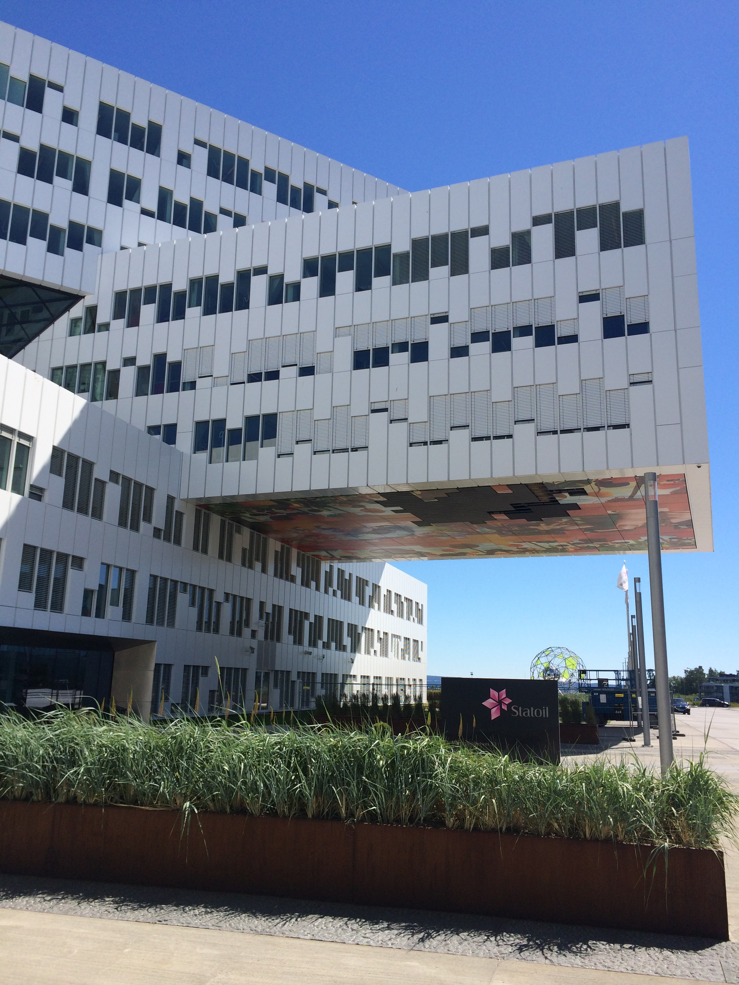 Image of the Statoil quarters at Fornebu, Norway